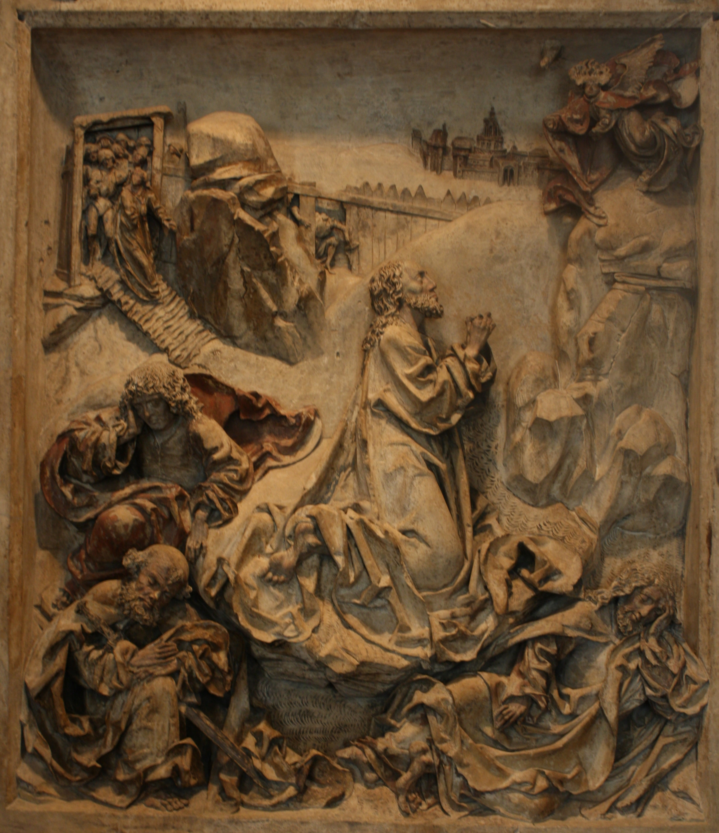 Veit Stoß, Christ in Gethsemane (Cracow, National Museum, Palace of Edward Ciołek)